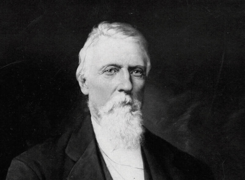 Portrait of Friedrich Hecker, 1875, age 64, St. Louis, Missouri, USA, from family collection of Edward Hecker